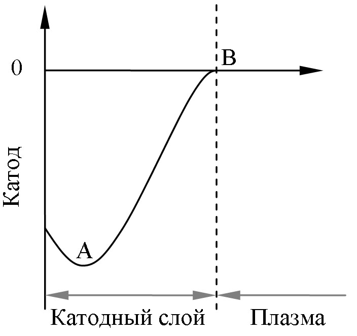 Potential distribution